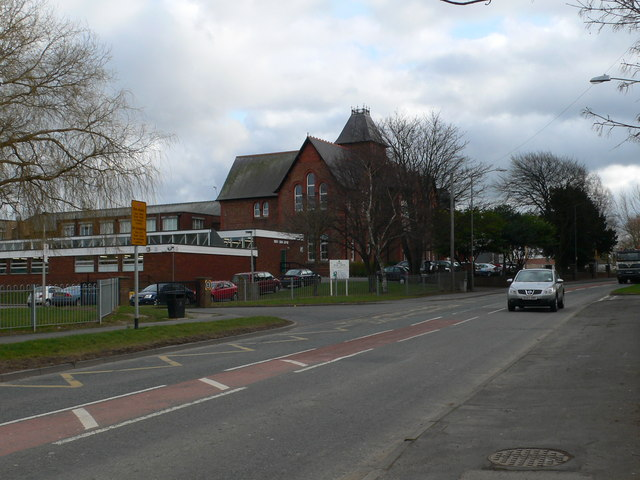 Ysgol Glan Clwyd, Llanelwy Ysgol Glan Clwyd was Wales' first Welsh language secondary school. It opened in 1957 in Rhyl before moving to its present location in St Asaph.